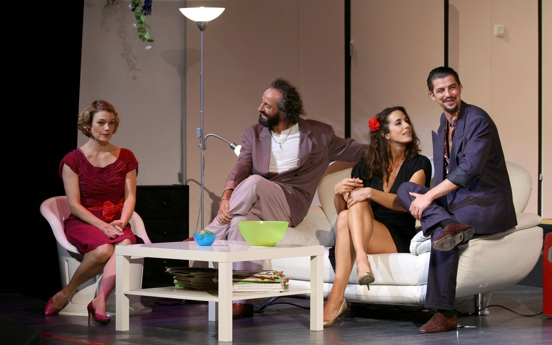 Elke Winkens, Nina Hartmann, Otto Jaus and Reinhold G. Moritz in Ein ungleiches Paar, an adaption of Neil Simons play The Odd Couple. Summer theater festival at the city theater of Berndorf (Lower Austria).